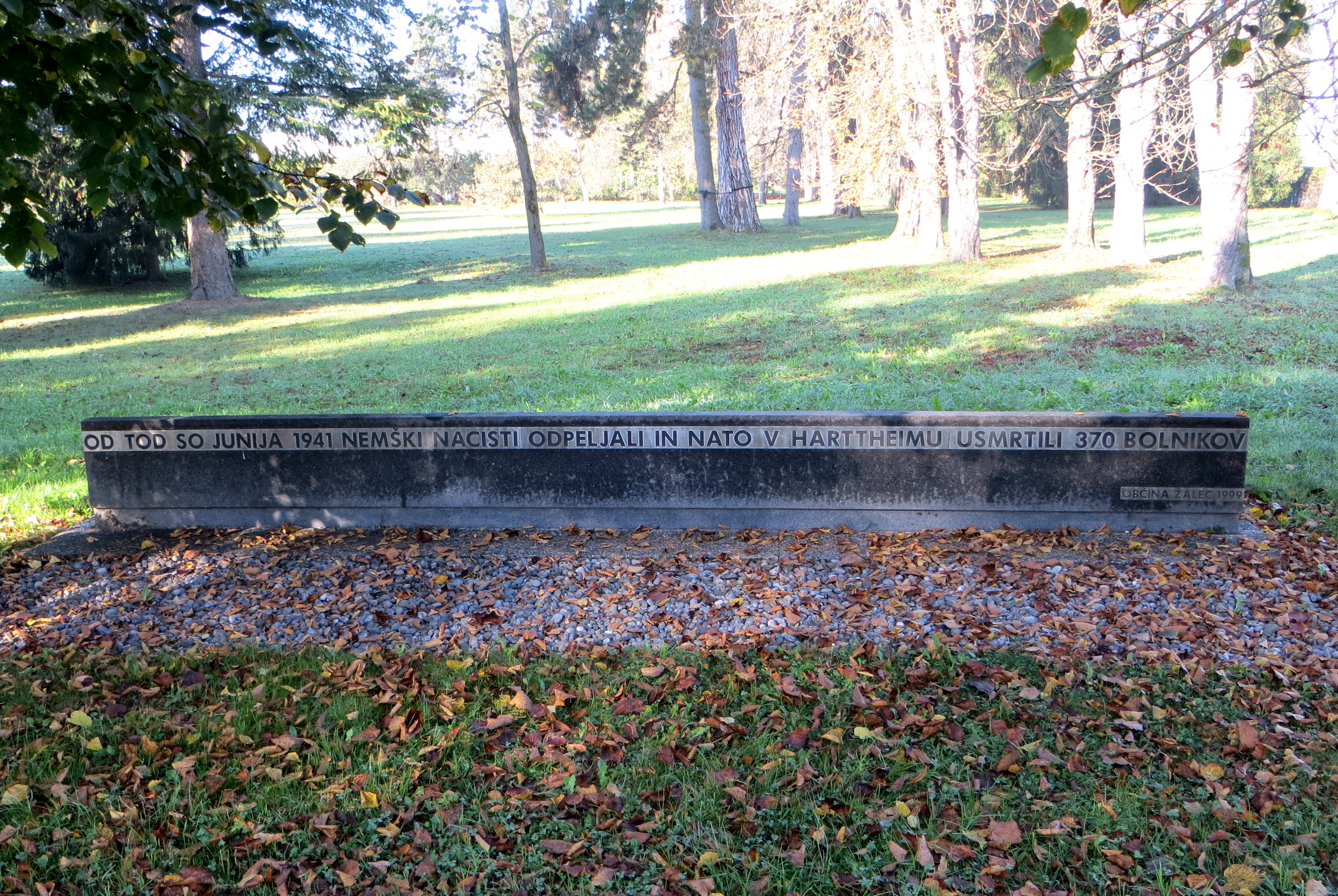 Memorial at Novo Celje Mansion, Novo Celje, Municipality of Žalec, Slovenia commemorating the transport and death of 370 psychiatric patients